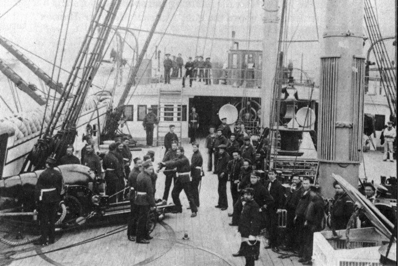 Photograph showing deck of the British broadside ironclad HMS Minotaur (1863). A 7-inch (178 mm) muzzle-loading rifle on a wrought iron gun carriage is at lower left.